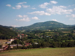 The village of Stragari with the Ramacki peak(Serbia)/Le village de Stragari, avec vue sur le mont Ramacki (813 m), Serbie